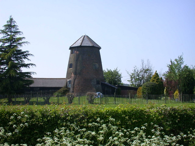 Ickleton, Cambridgeshire: early 19th-century tower mill west of Duxford Road, now converted into a house